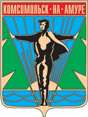 Komsomolsk-na-Amure (Khabarovsk kray), coat of arms (1967)